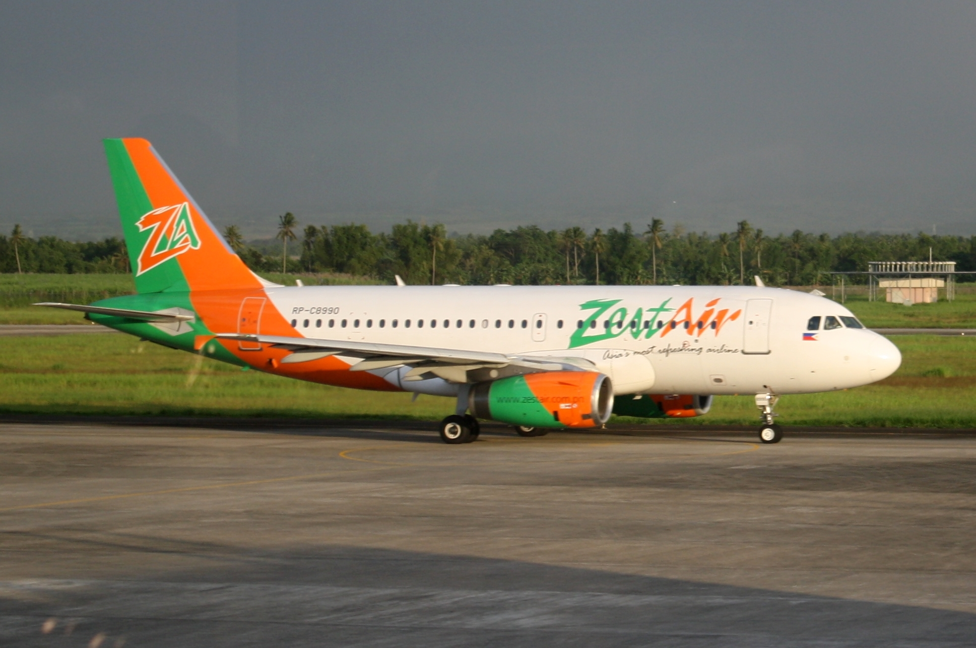 A Zest Air aircraft in New Bacolod-Silay Airport, Negros Occidental